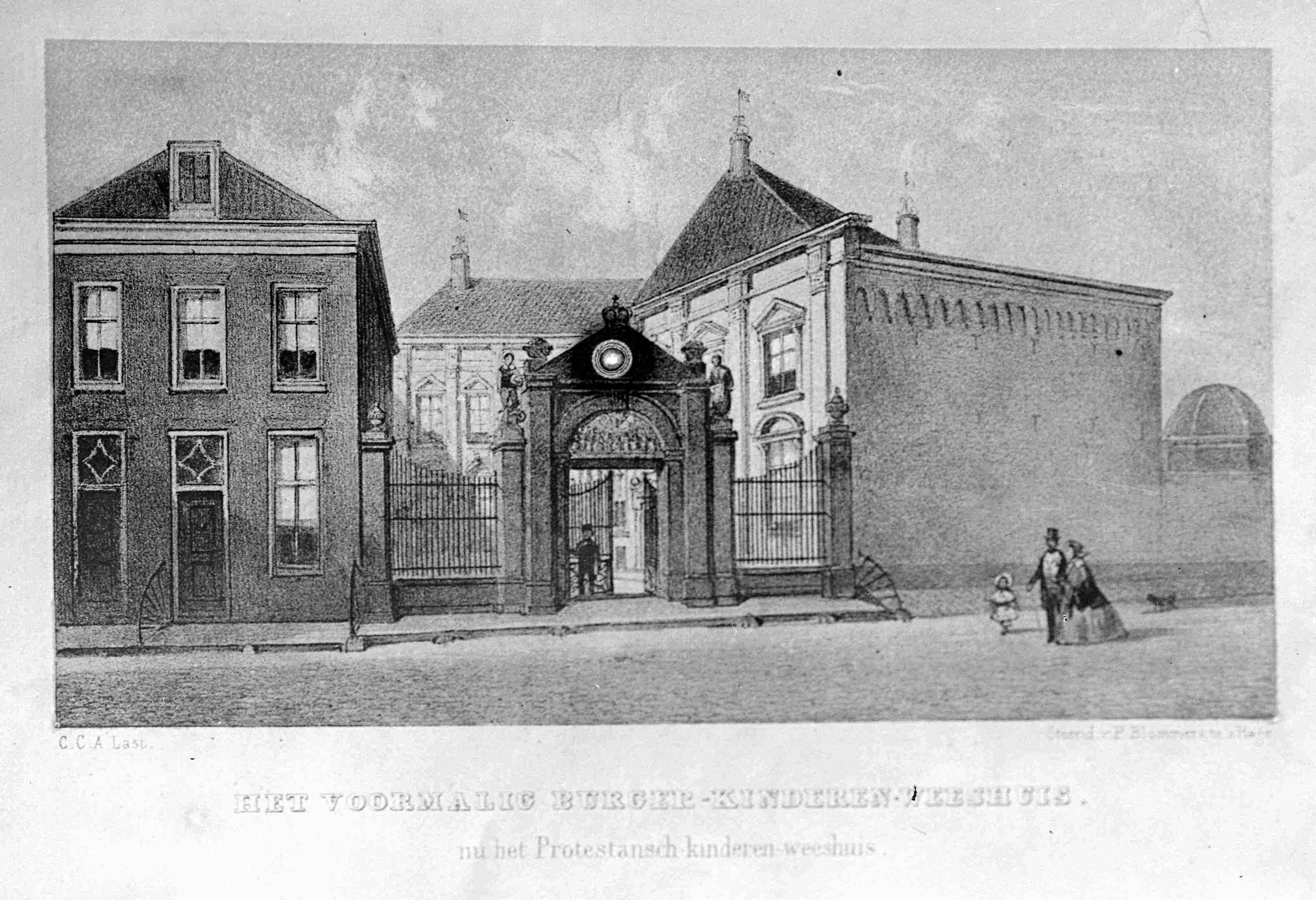 Former citizens orphanage in Nijmegen, Netherlands; ca. 1850. Reproduction of lithograph by C.C.A. Last.